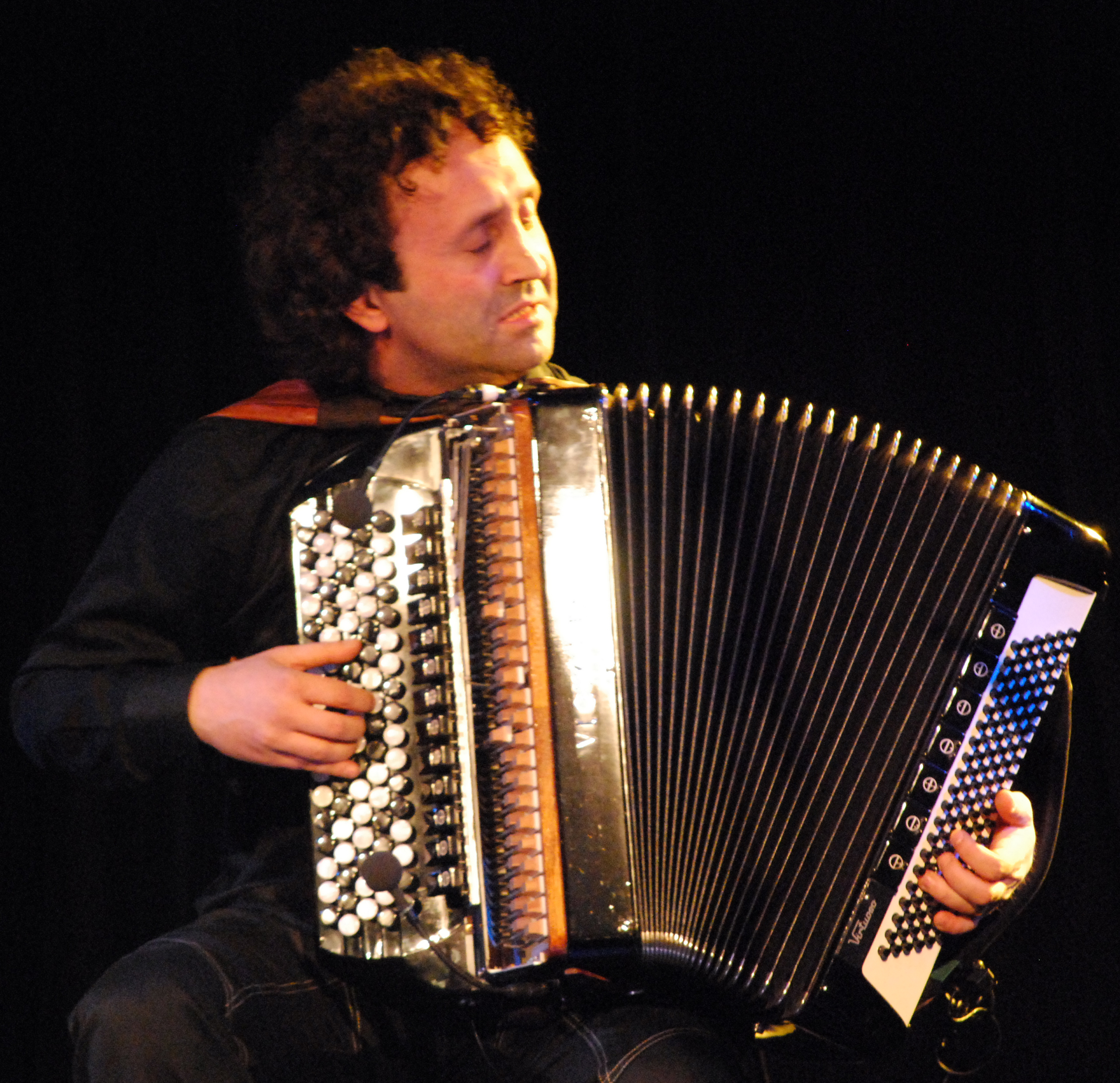 Luciano Biondini 2009. Treibhaus Innsbruck. Concert with Michel Godard and Ernst Reijseger